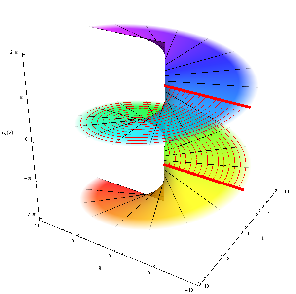 The plot is of the surface of arg, coloured by modulus. The thick red lines indicate the cut used to produce the principle branch, and the red hatched section they bracket is the portion of the surface selected.